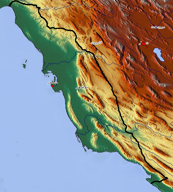 Bushehr Province Topography